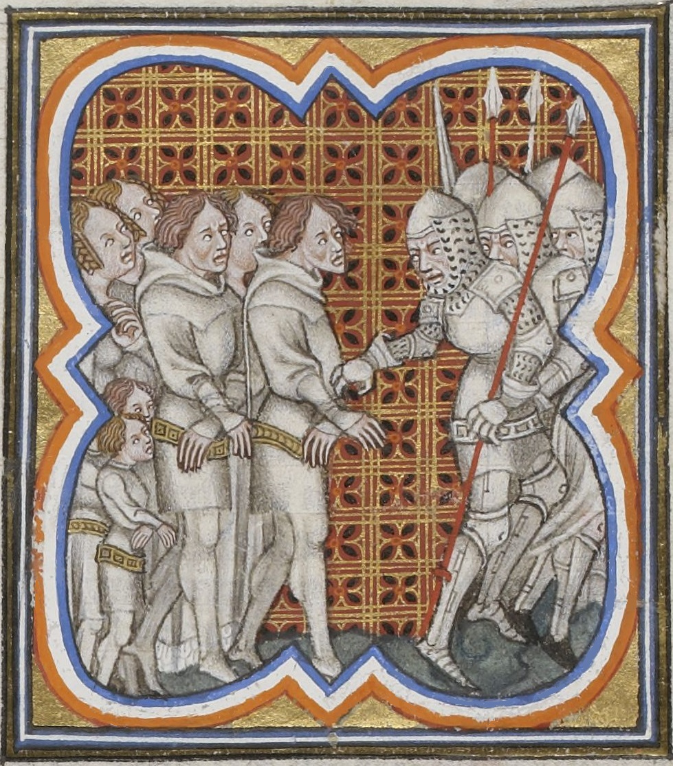 The Jaquerie revolt (1358). Prisoners taken by the Jaquerie.